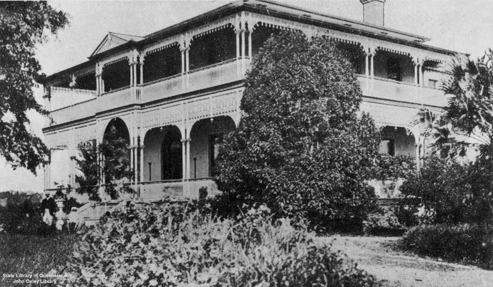 Queen Alexandra Home, Coorparoo, Brisbane, Queensland, 1911 Side and garden view of the Queen Alexandra Home at Coorparoo, Brisbane, Queensland. The building is two storeys high, possible rendered brick construction with balconies that are supported by twin columns. The verandas have decorative iron work on the ballustrading and a set of wide steps lead to the main entrance. Queen Alexandra Home was managed by the Methodist Church .